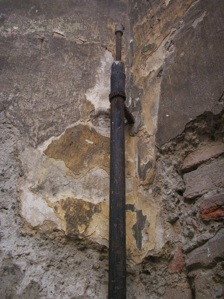 Parts of one of the oldest lightning rods of the world in the Narrenturm a Lunatic asylum nowadays part of the university campus of Vienna / Austria / Middle Europe.